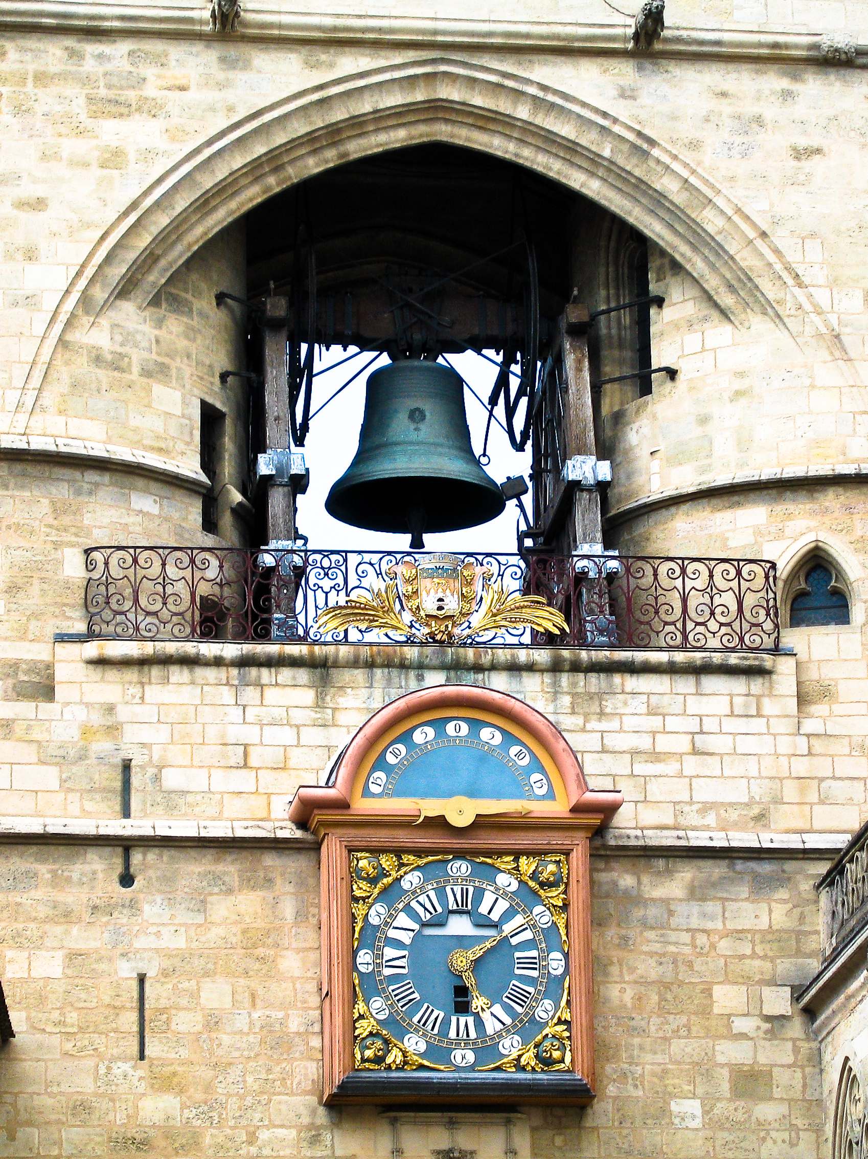 Detail of the "Grosse Cloche" (big bell) in Bordeaux, France.